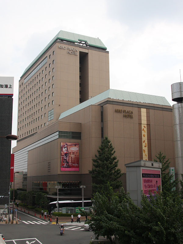 Keio Plaza Hotel Hachioji in Hachioji, Tokyo, Japan